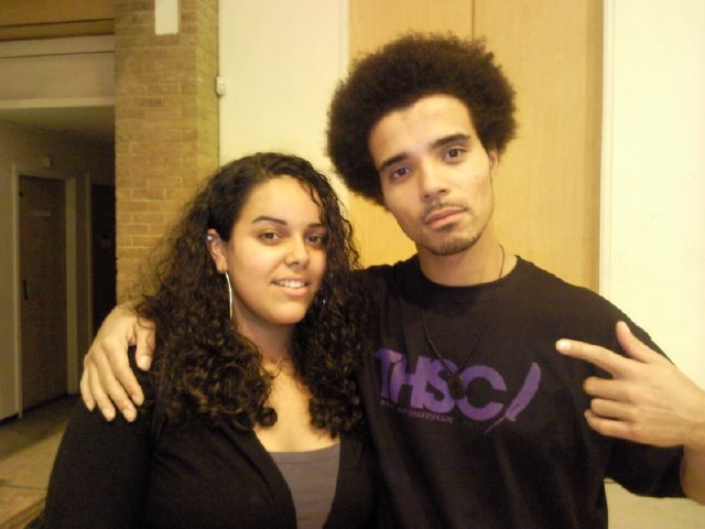 This photo was taken at a closed session event with 'The Hip-Hop Shakespeare Comapany' event in East London, Tower Hamlets, UK. The singer 'Melodee' performed a singing freestyle combined with Shakespeare lyrics on a hip hop beat, where 'Akala' (Mobo award winner,Rapper) was the host of the event alongside 'Ian Mckellen' (Hollywood Actor) who has labelled her as "The beautiful voice".